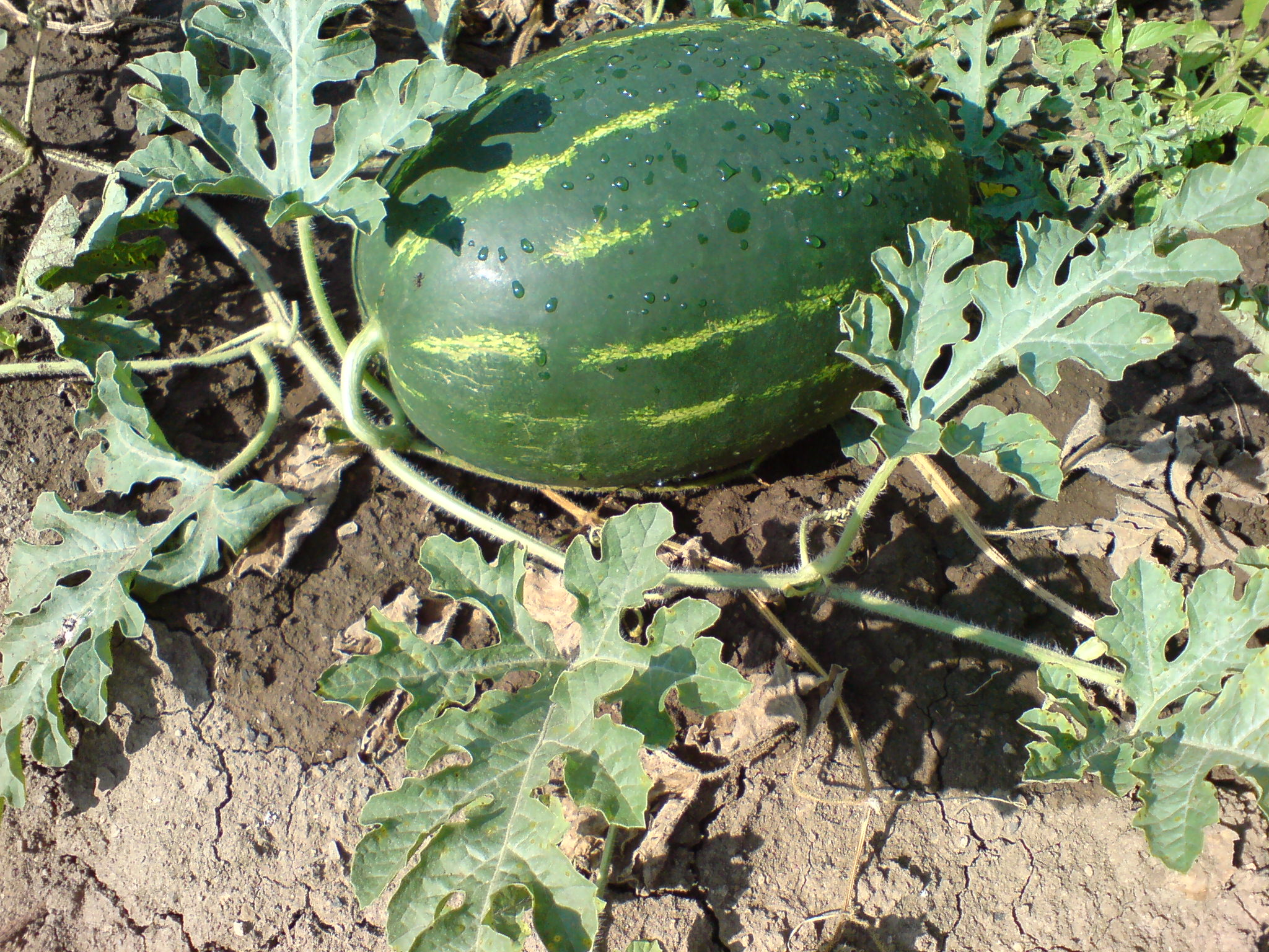 Watermelon (Citrullus lanatus)